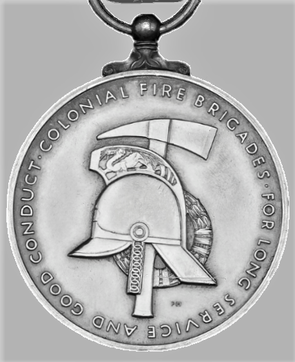 Reverse of British medal for long service in Colonial fire brigades, design 1934 - 2012